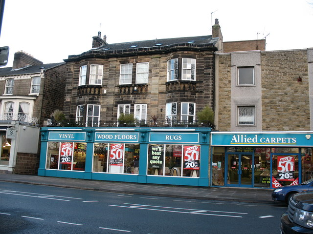 Allied Carpets, West Park This photo marks a sad decline over the last 50 years. The dark sandstone building represents one third of the former Clarendon Hotel, the other two thirds having been demolished in favour of the fairly horrible structure to the right.